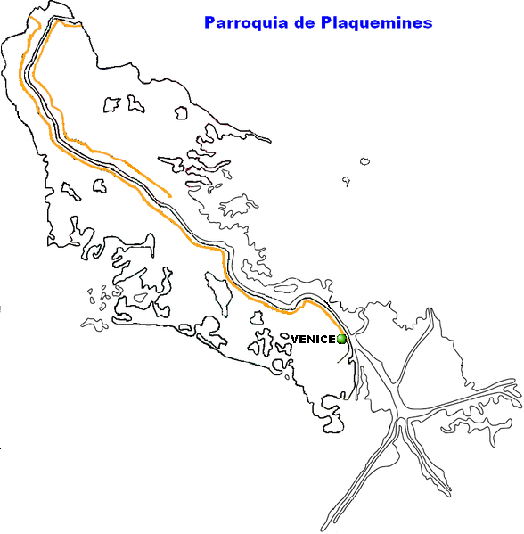 Venice Mapa Locator